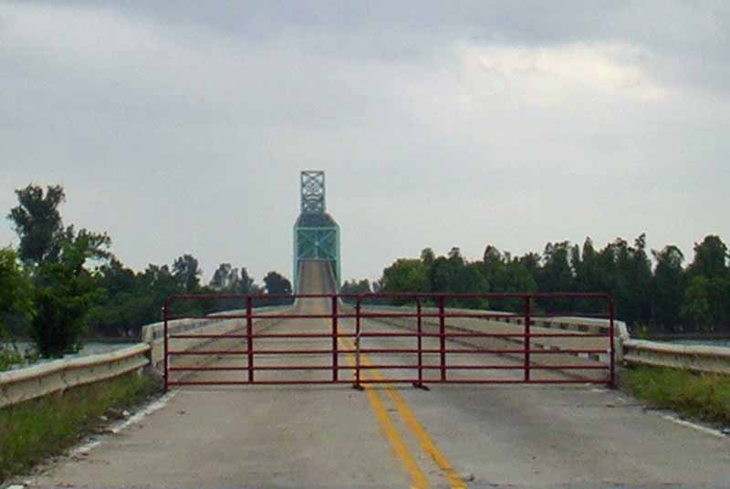 Cairo Mississippi River Bridge, from Cairo, Illinois to Missouri, closed during the 2011 Mississippi River floods